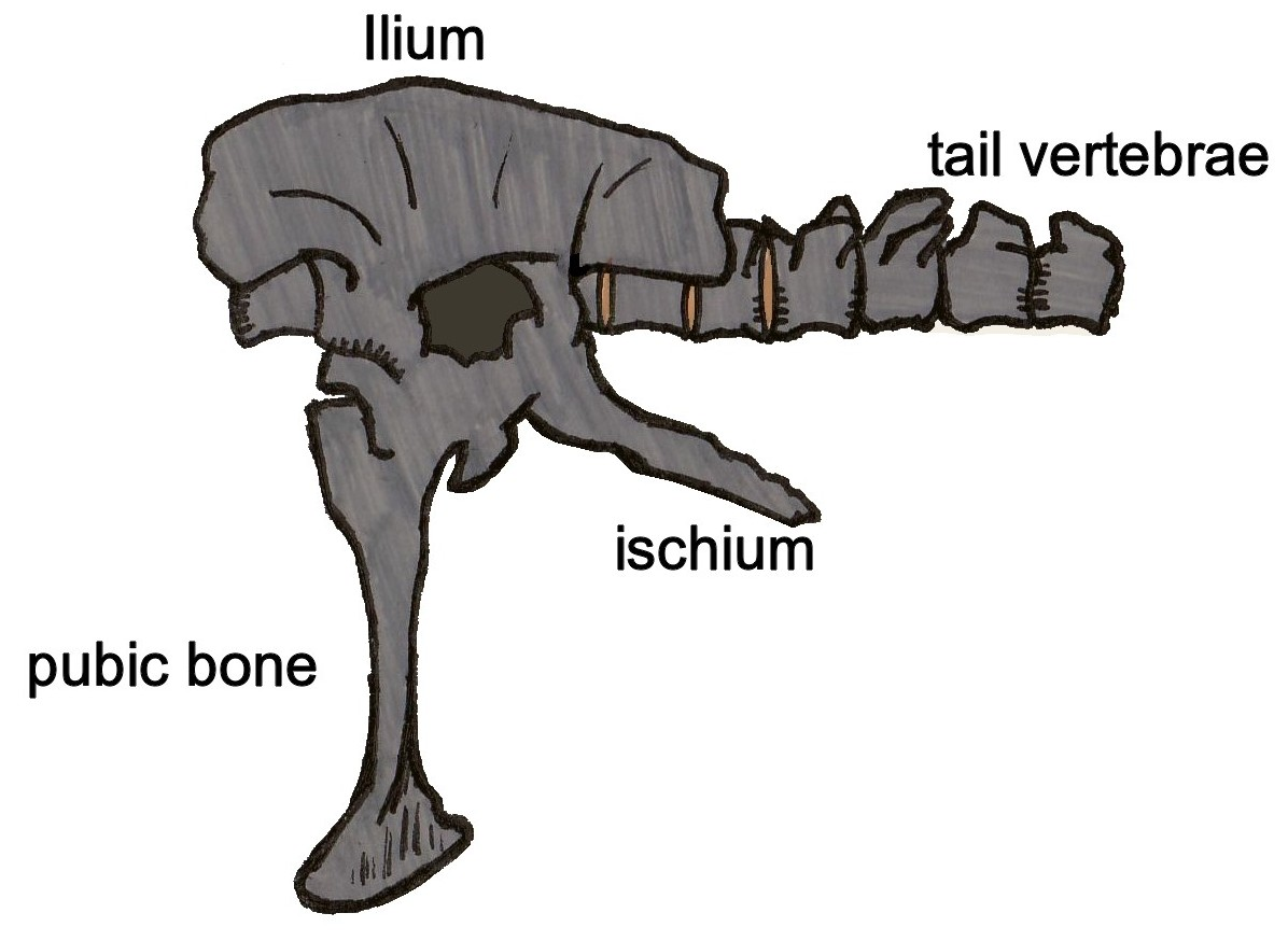 Illustration of the pelvis from the theropod dinosaur Siamotyrannus isanensis. Siamotyrannus lived in Thailand, according to scientists about 90 MYA. It has been estimated to a length of 7 meter, and a weight of about 2 tonnes. Scientists has been uncertain if Siamotyrannus is a member of the family Tyrannosauridae or to Sinraptoridae.